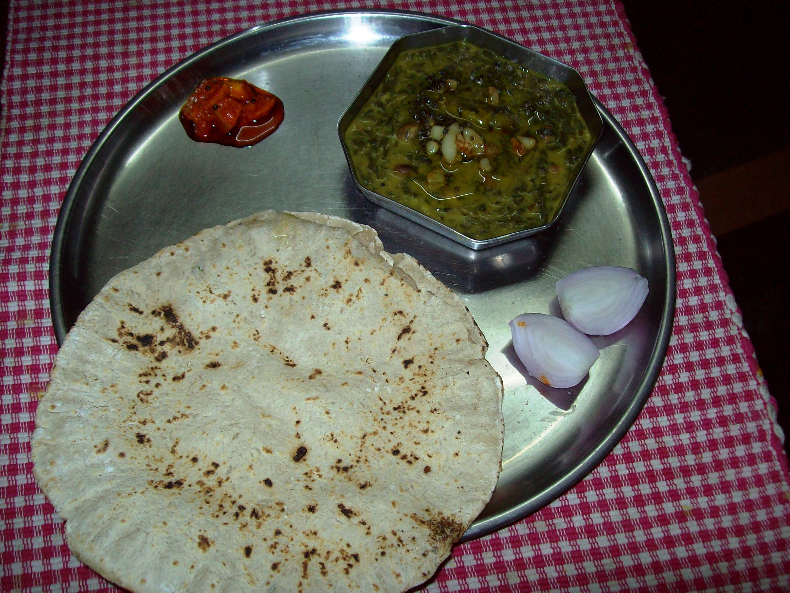 Typical Maharashtrian Menu_Bhaji –Bhakari: Bhaji is any thick gravy of green leafy vegetable, here thick Chakwat (lamb's quarters, white goosefoot - Chenopodium album) gravy seasoned with chopped garlic “Phodani” (Tadka or a kind of Oil seasoning). Bhakari is thick Roti of Jwar (or Bajari). The dish also shows unripe mango pickle and onion.